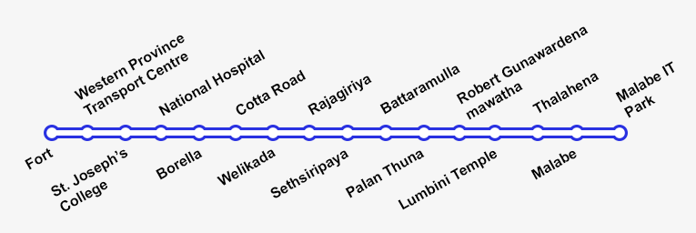 Map of Phase 1 of the Colombo Light Rail as at 6 February 2018